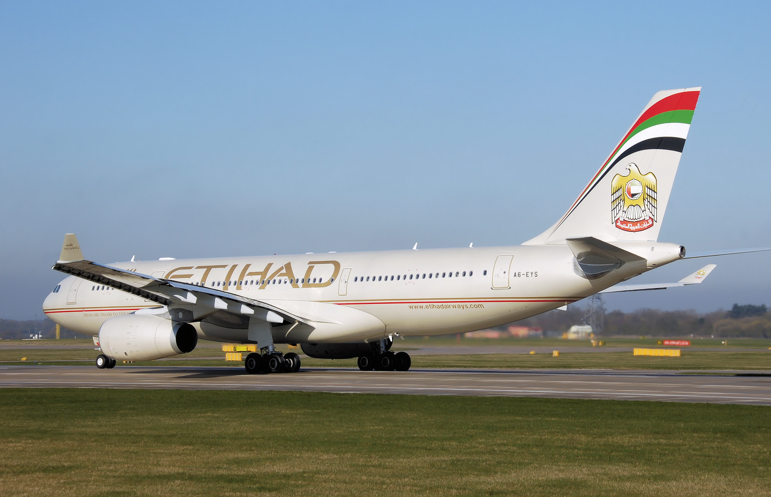 Etihad Airways Airbus A330-200 (A6-EYS) taxis for takeoff at Manchester Airport, England. Photographed by Adrian Pingstone in March 2009 and released to the public domain.